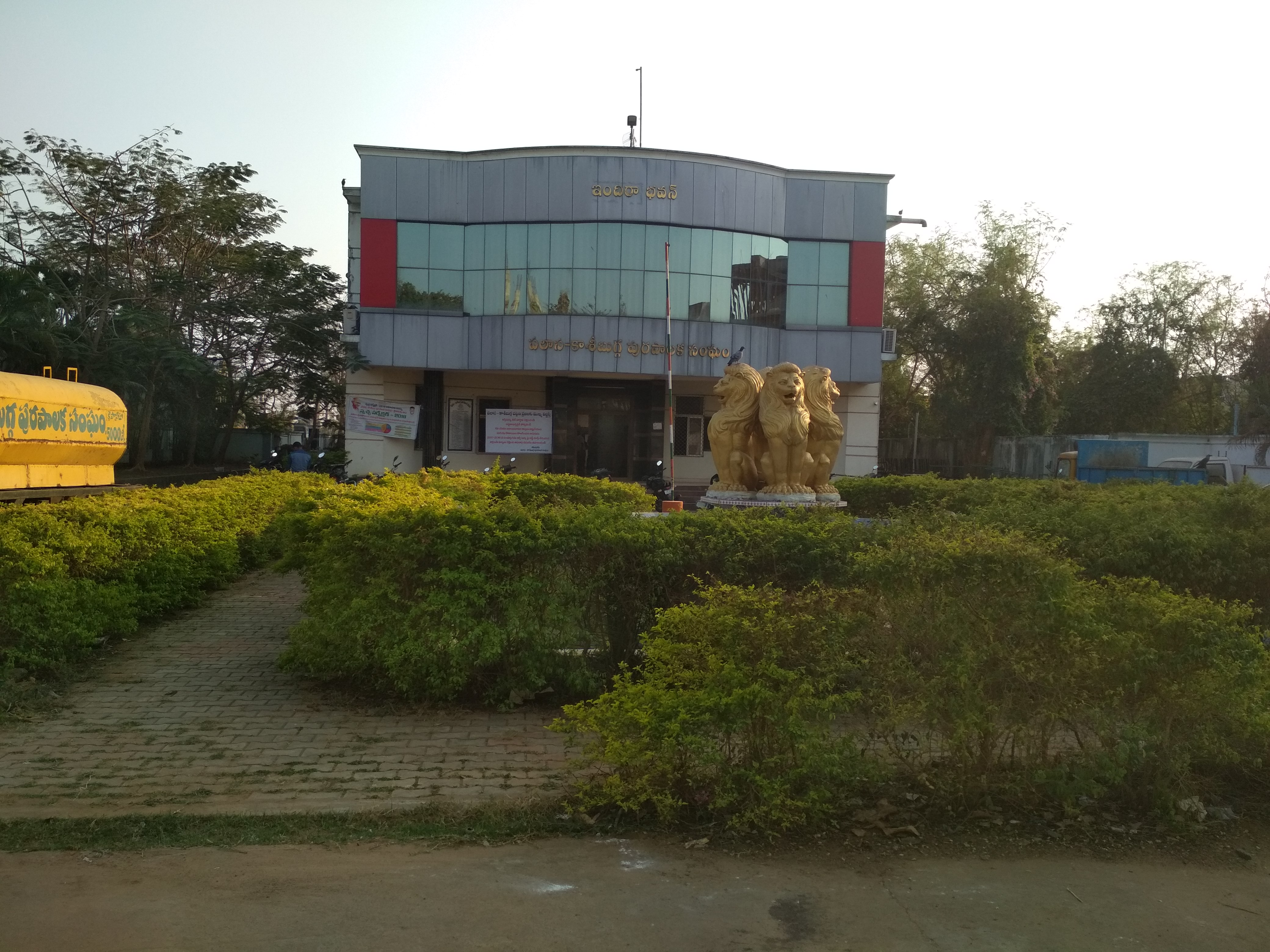 Palasa kasibugga municipality office